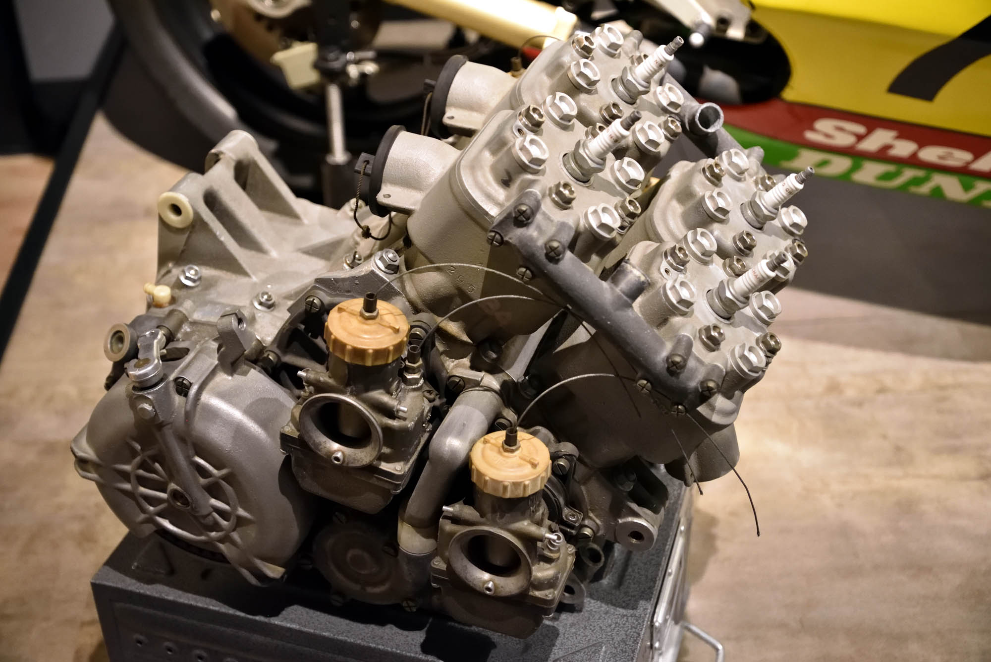 Square four engine of Kawasaki KR500 (1982)